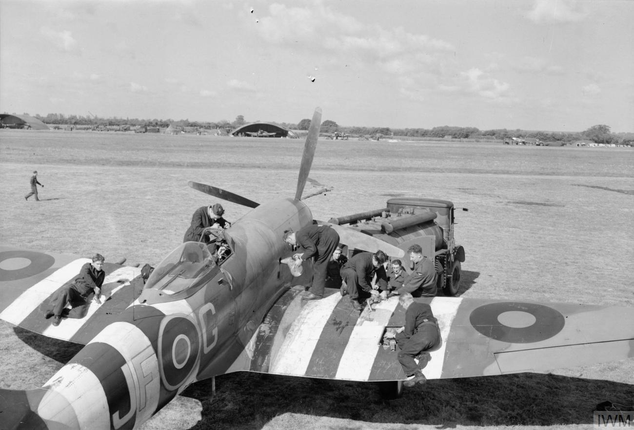 Royal Air Force ground crew refuel and re-arm Hawker Tempest Mark V 'JF-G' of No. 3 Squadron RAF by the grass North-South runway at Newchurch, Kent (UK). On the far side of the runway is the dispersal area of No. 56 Squadron RAF.